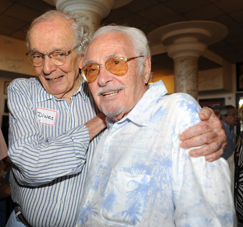 The Brazilian (also Argentinian) cartoonist Lan and the Brazilian journalist Alberto Dines